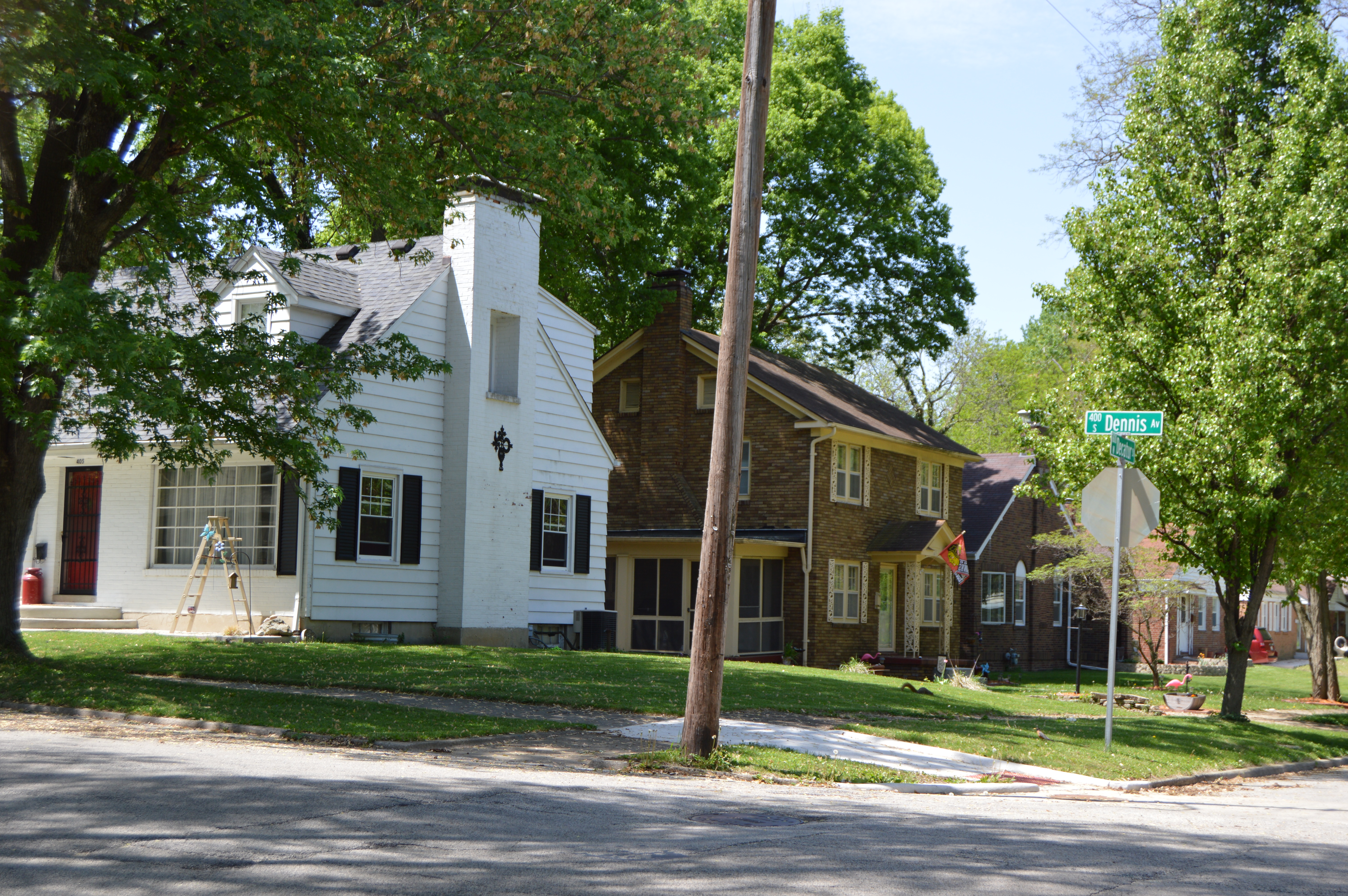 Houses on the southern side of W. Decatur Street, seen from the Dennis Avenue intersection, in Decatur, Illinois, United States. This block is part of the West End Historic District, a historic district that is listed on the National Register of Historic Places.